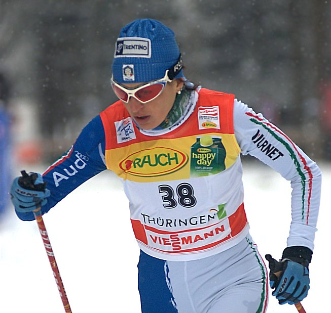 Antonella Confortola Wyatt at the Tour de Ski 2010 in Oberhof